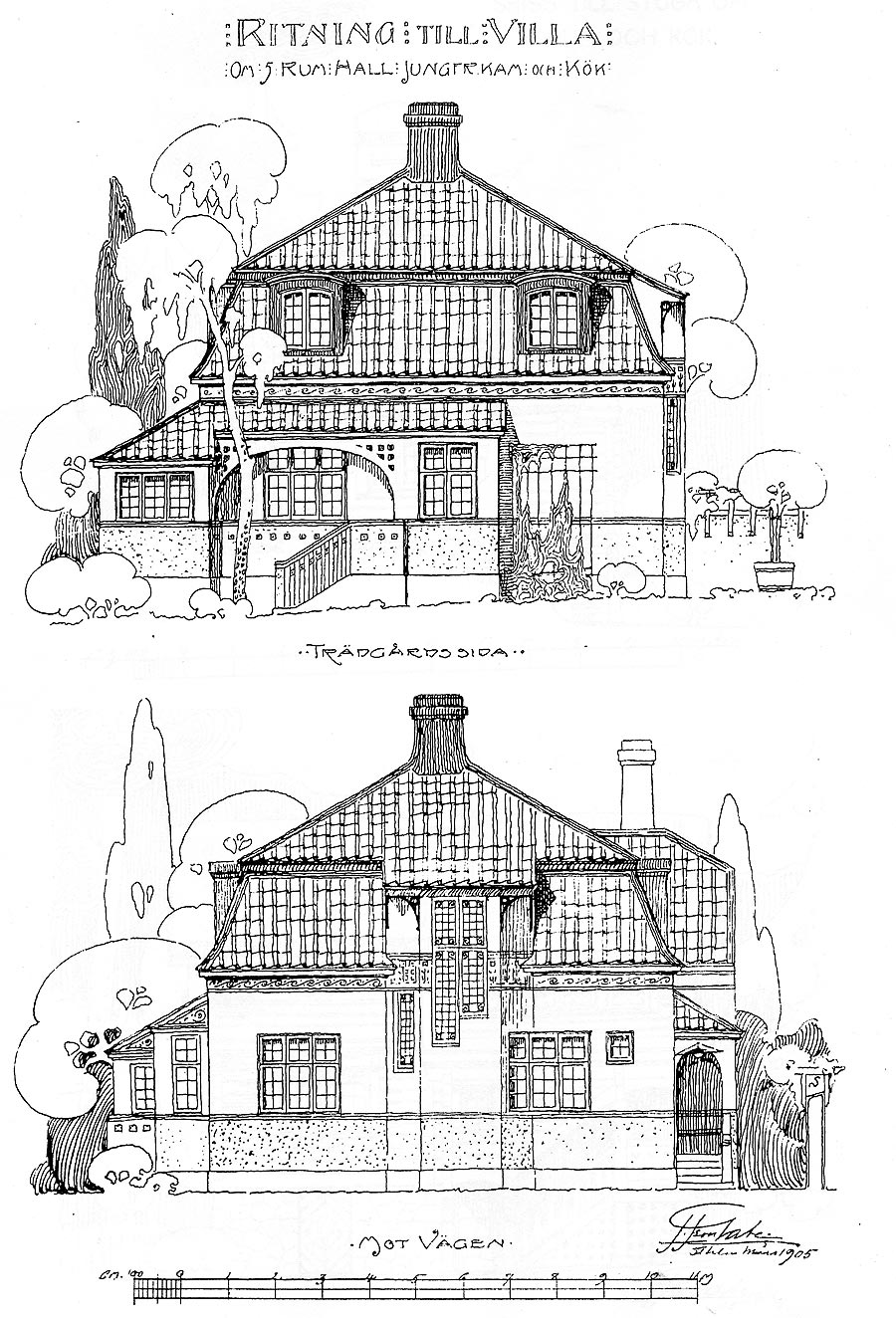 drawing of swedish villa, published in book "Ritningar till svenska sommar- och egnahemsvillor" 1905.